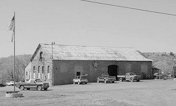 Merchants Coal Company powerhouse at Boswell (Public domain photo by Jet Lowe, 1992, Historical American Engineering Record). From